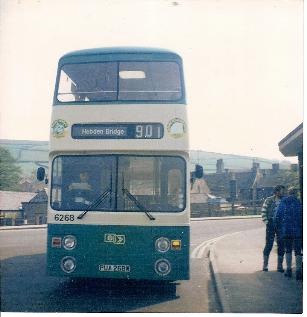 Seen in Hayfield Bus Station in its first Summer of operation. The 901 was a truly epic Double Deck bus service, travelling from Huddersfield, Holmfirth, over the top and via Woodhead Reservoir to Glossop, then on via Long Hill to Buxton, Hartington, Matlock and the Crich Tramway Museum. Portions of the former route still remain in the current bus network, but in its early days the destination blind hasn't been translated for use on the wrong side of the Pennines and the driver is closely reading his running card for further clues!